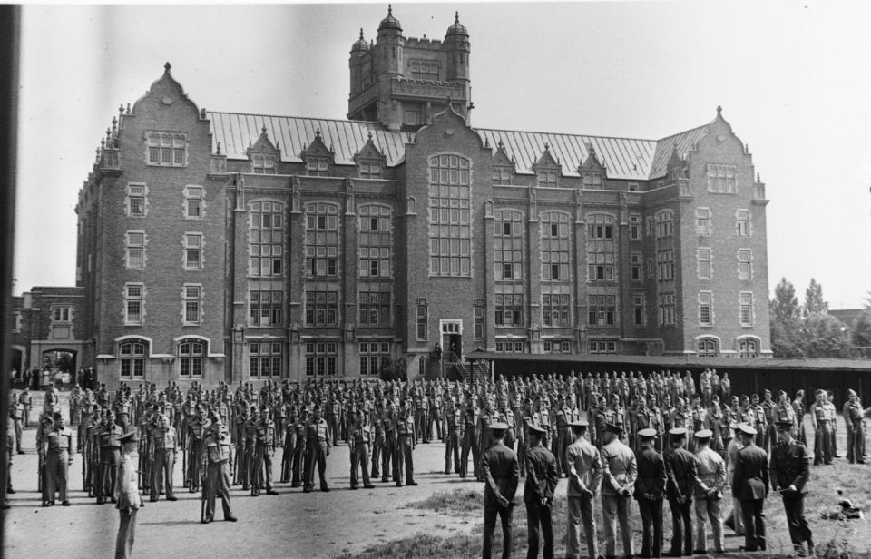 We see young soldiers part of the Canadian Officers Training Corps (C.O.T.C.) at Loyola College located at 7141 Sherbrooke Street West, Montreal.